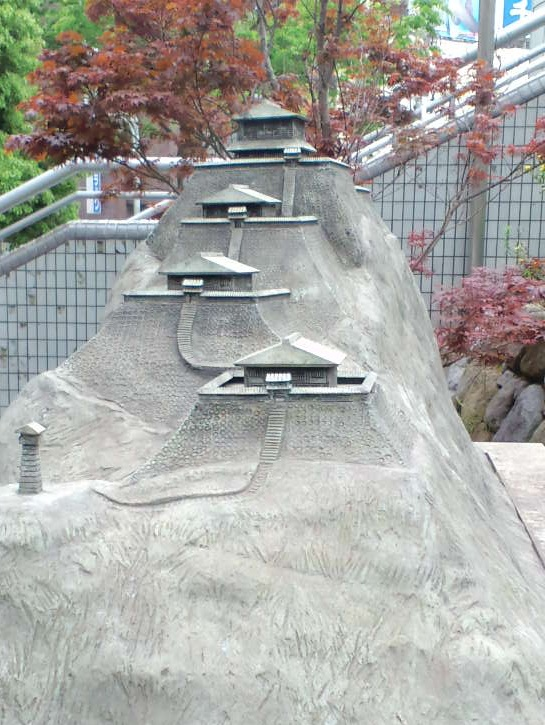 Former Hanao castle in Kitakyūshū, Japan